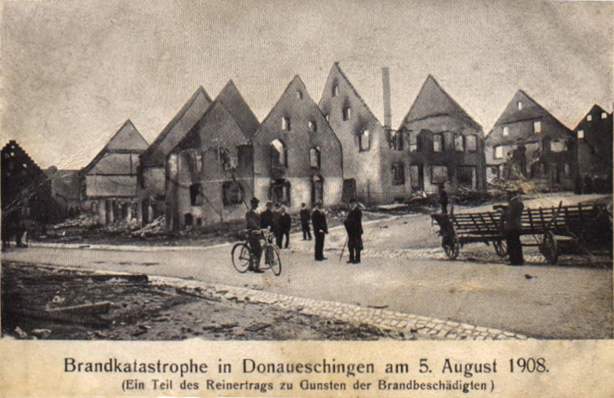 Old picture of destructions after the August 1908 fire in Donaueschingen